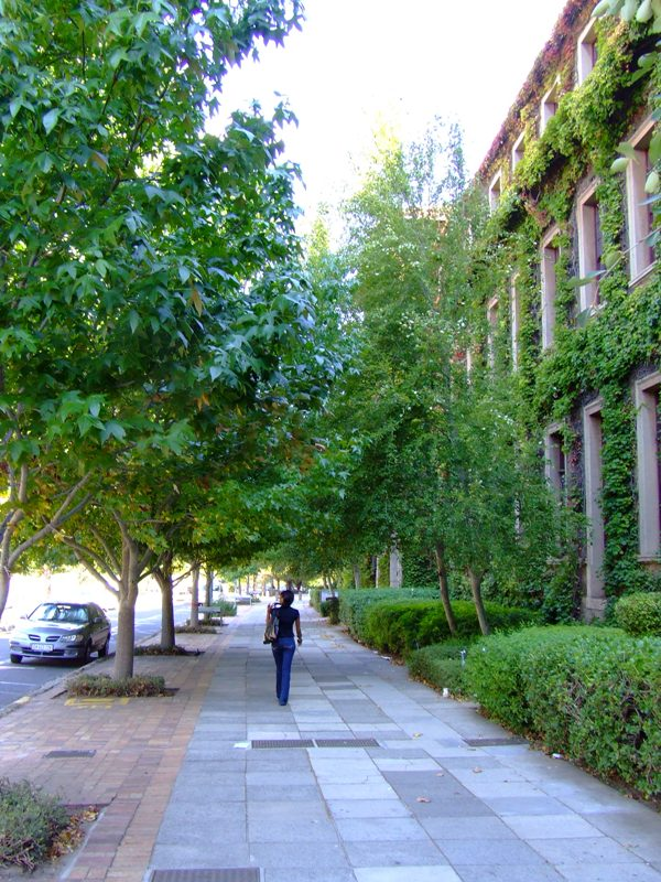 Walking on University Avenue north on upper campus